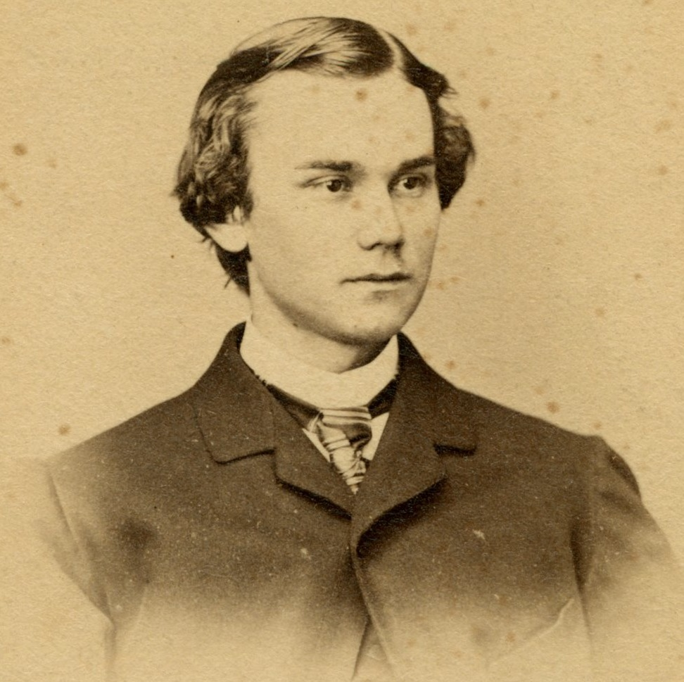 John Hay, assistant secretary to President Lincoln, seen in 1862 (cropped)